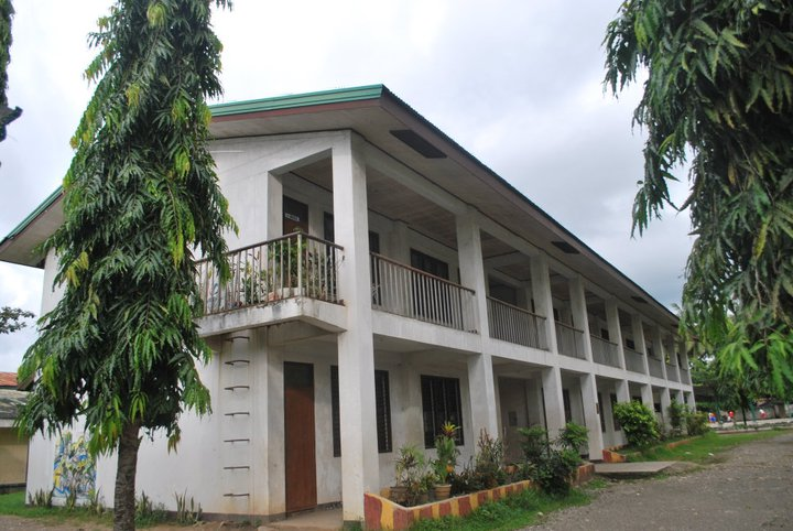 Science bldg in BNCHS